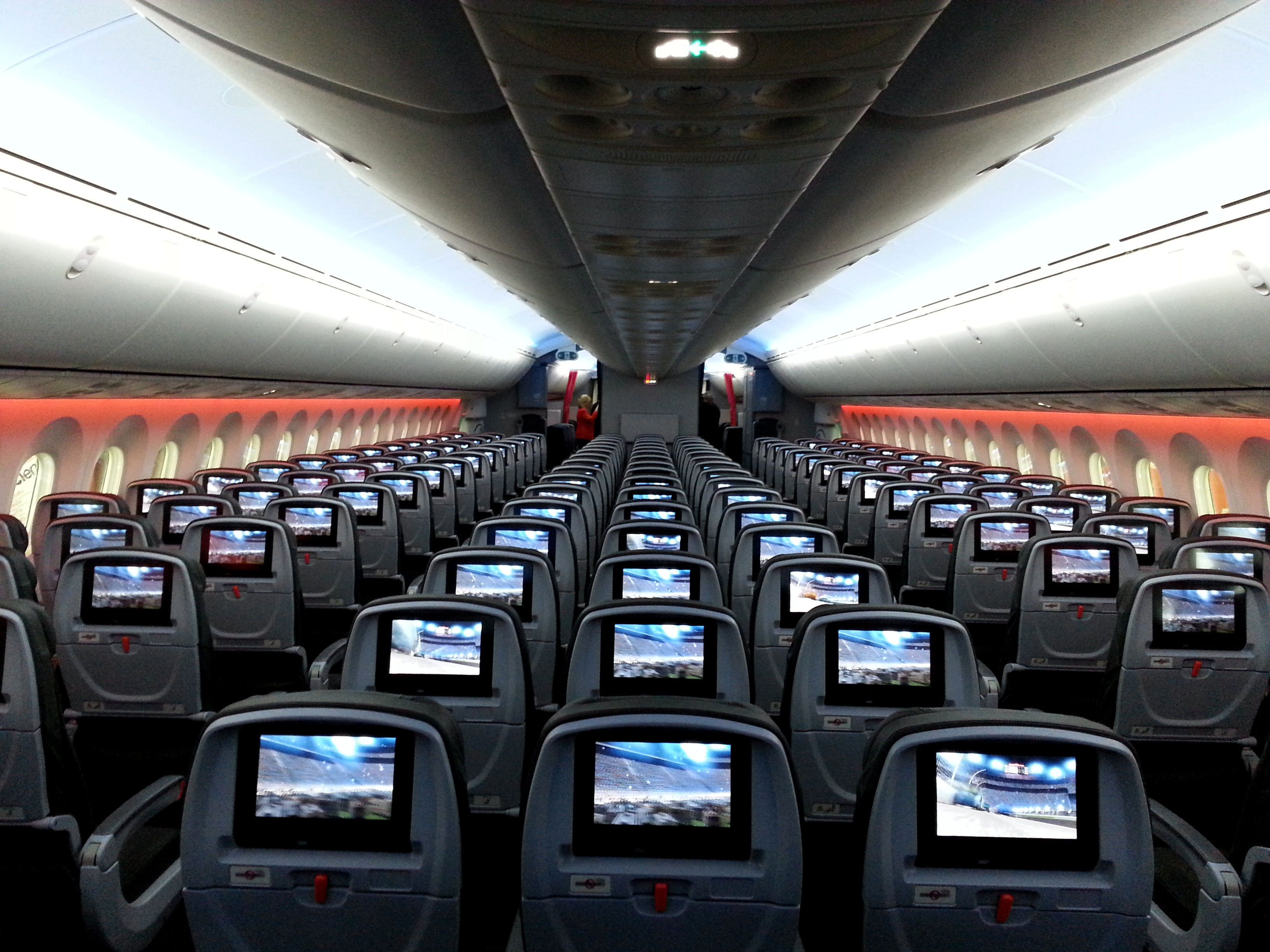 Passenger cabin of a Jetstar Boeing 787